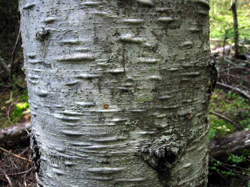 Pacific Silver Fir bark Description: Pacific Silver Fir (Abies amabilis) bark with pitch blisters and lichen. Its diameter is about 0.25 m. Viewpoint location: Kachess Ridge Trail 1315. Kachess Ridge is located in Wenatchee National Forest, Washington, USA, about 26 km southeast of Snoqualmie Pass. GPS: UTM 10 638631E 5237841N (WGS84/NAD83) USGS Kachess Lake Quad [1] Viewpoint elevation: 3580' View direction: West Date and time: 2005:10:04 14:48:13 PDT Camera: Canon PowerShot S110 Photographer: Walter Siegmund ©2005 Walter Siegmund